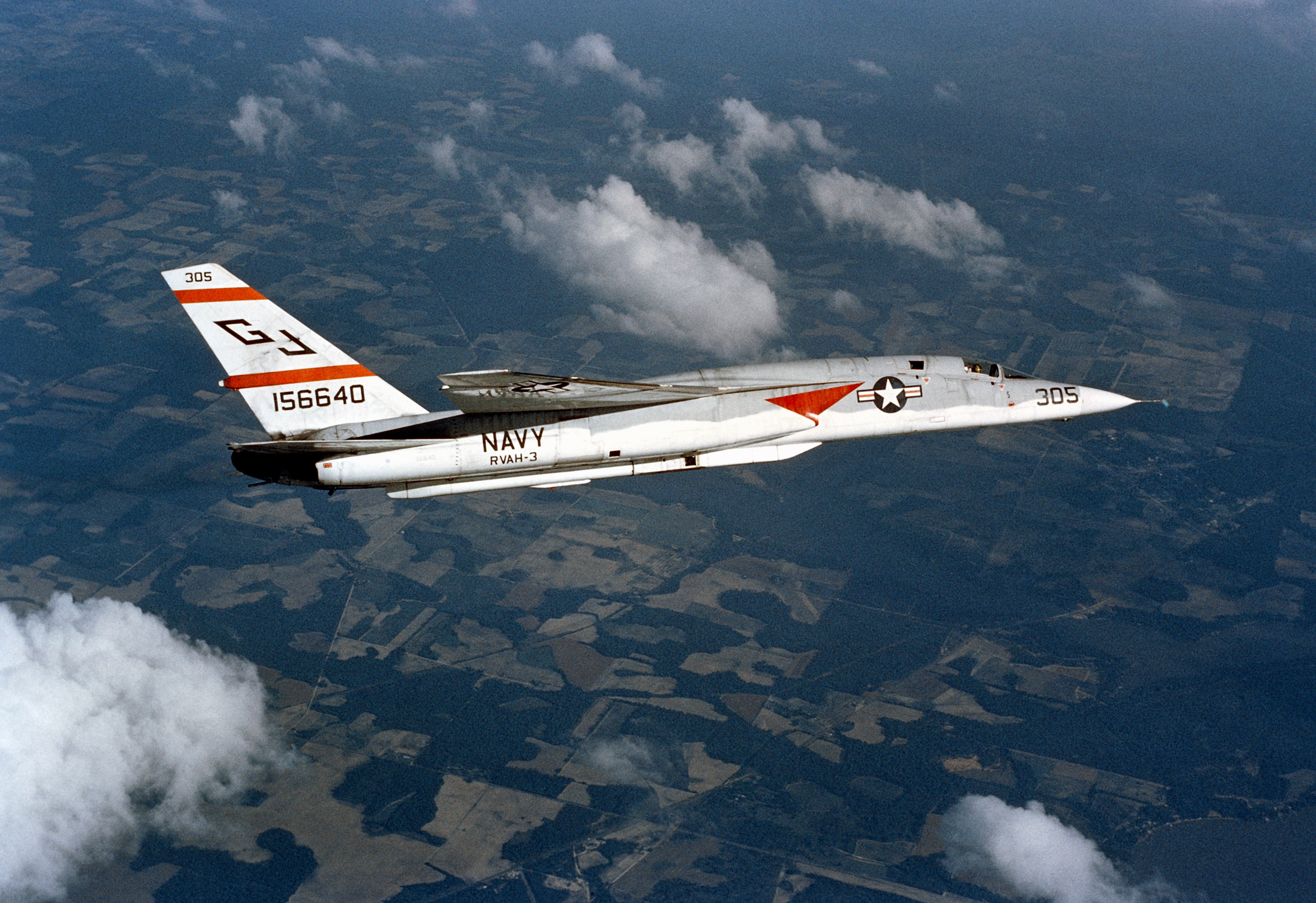 A U.S. Navy North American RA-5C Vigilante (BuNo 156640) of Reconnaissance Heavy Attack Squadron 3 (RVAH-3) "Sea Dragons" in flight on 1 June 1976.